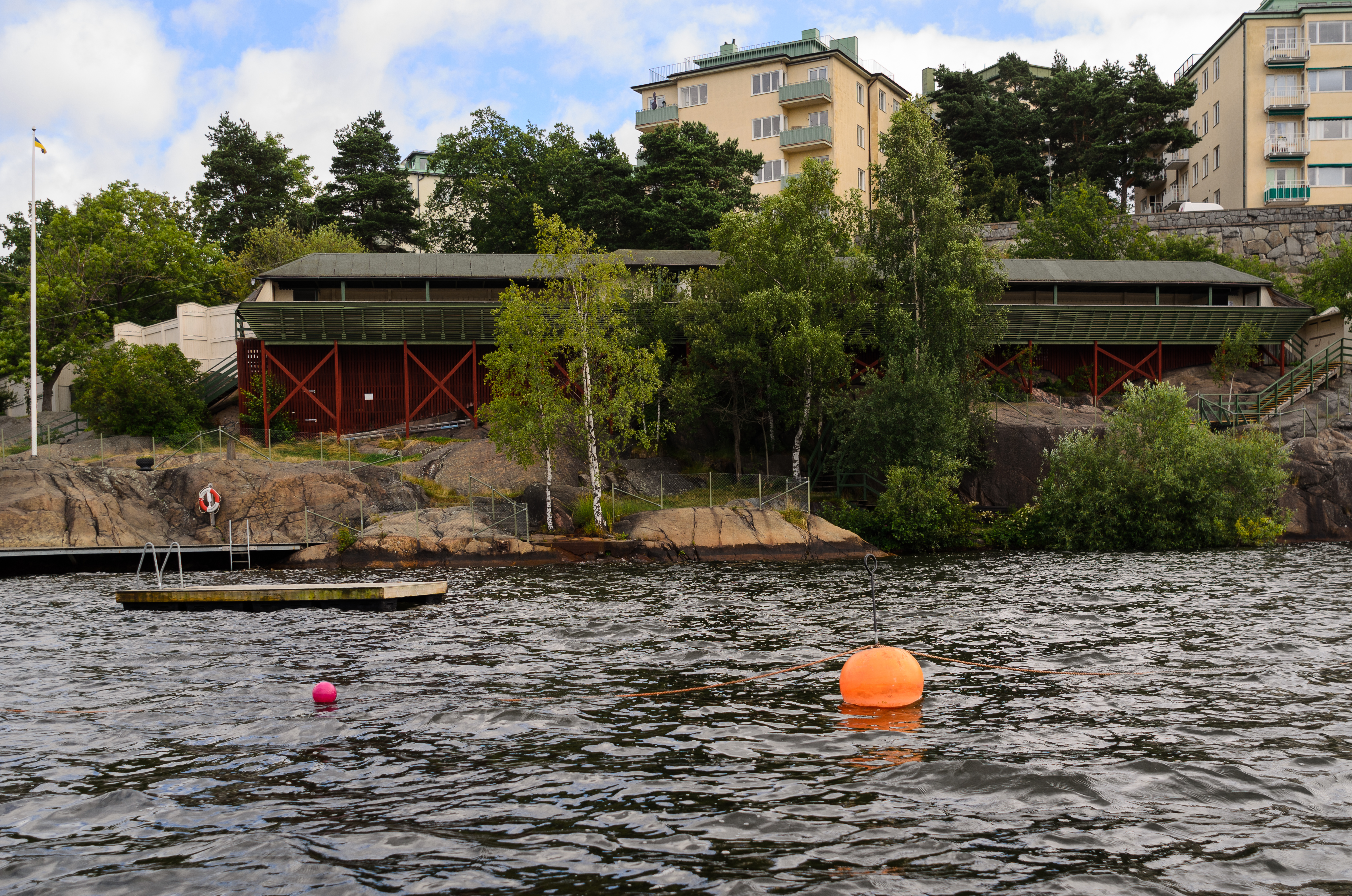 Fredhällsbadet.